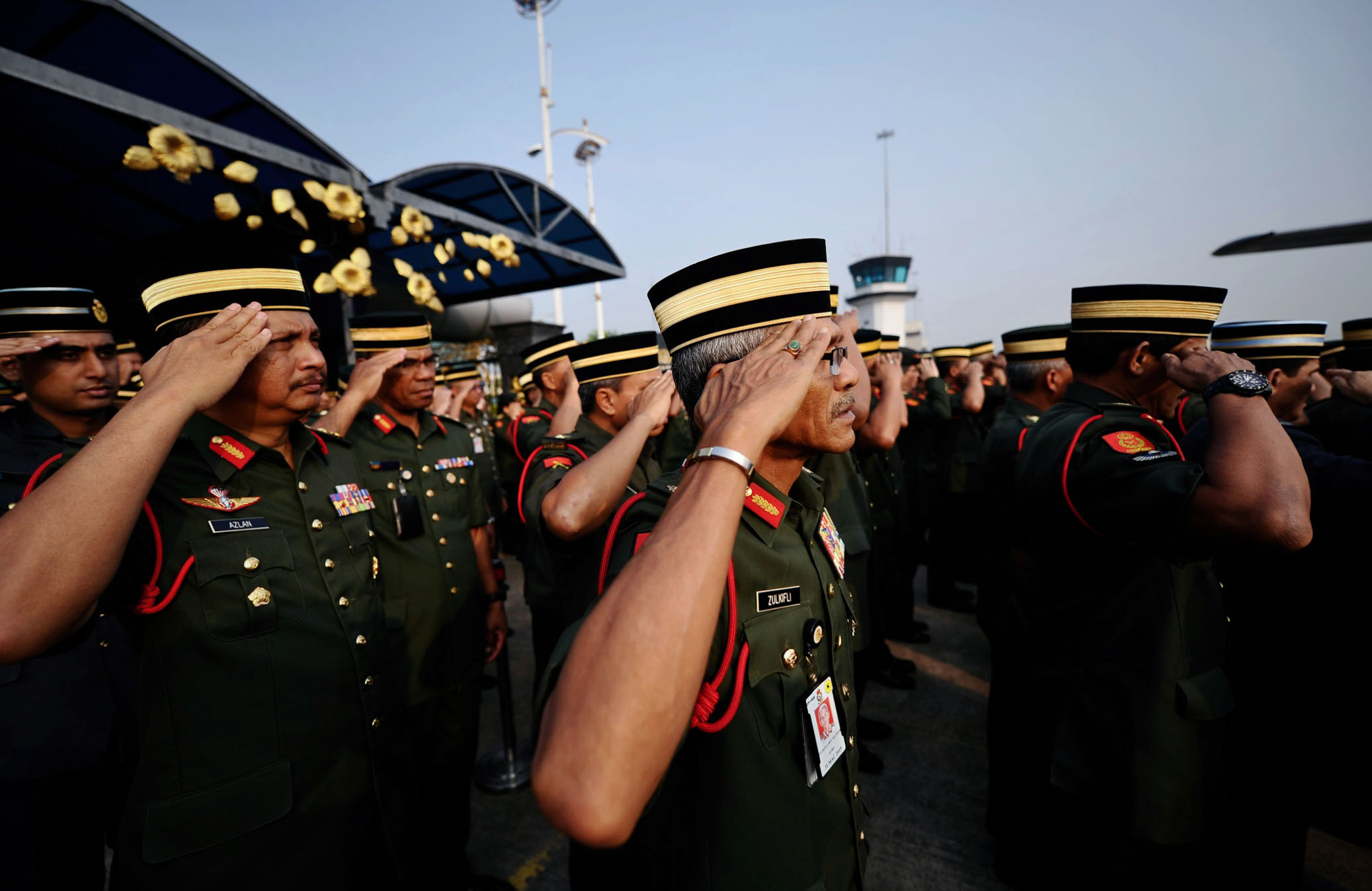 Subang Jaya 13/03/2013. Soldiers give a last respect to death body in ops Daulat. Pbt Ahmad Hurairah Ismail death during the ops Daulat in Lahad Datu and Pbt Ahmad Farhan Ruslan death in accident convoi from Kota Kinabalu to Lahad Datu at TUDM Subang. Pix Firdaus Latif